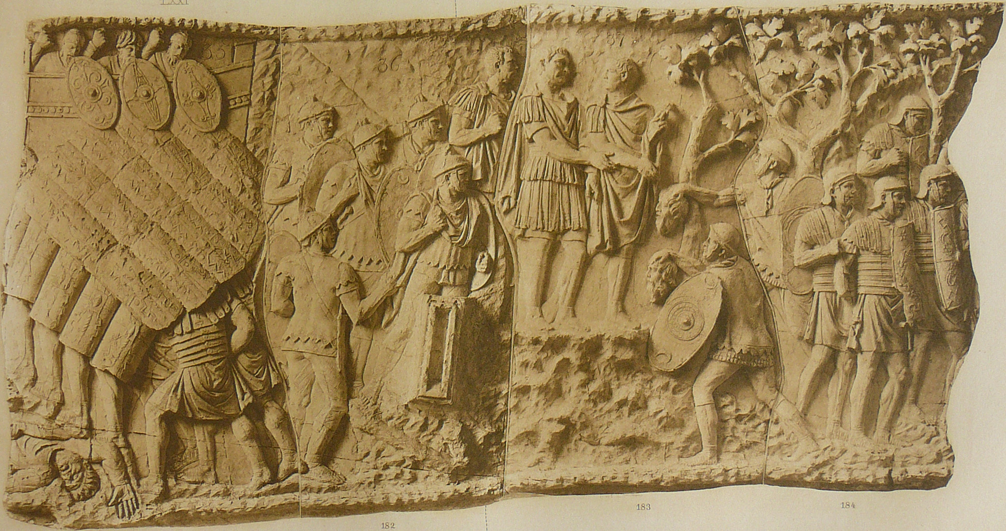 Storming of a Dacian fortress (scene LXXI); the last battle of the first war (scene LXXII)